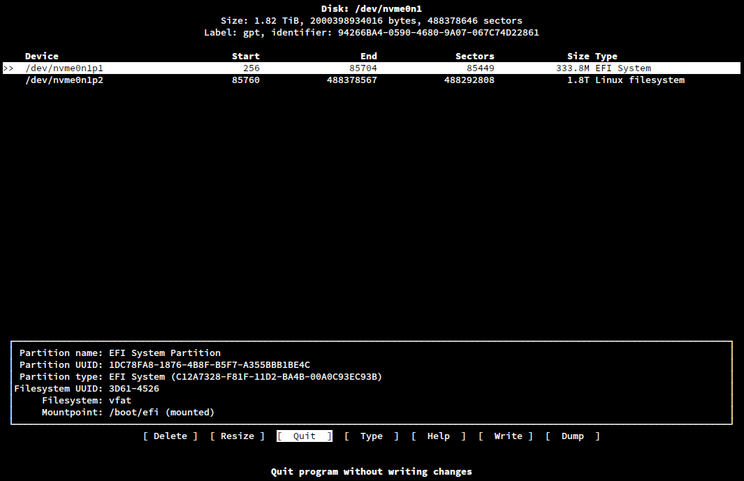 Linux user friendly partitioning tool.